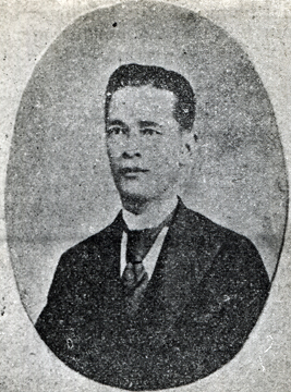 Mariano Llanera, Filipino general during the Philippine Revolution and the Philippine-American War.